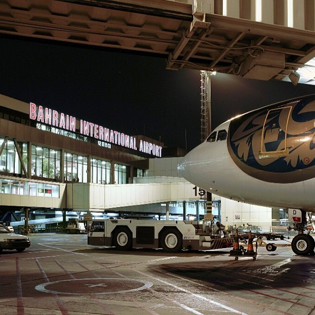 Photograph of Bahrain International Airport's main departure terminal in May 2014.